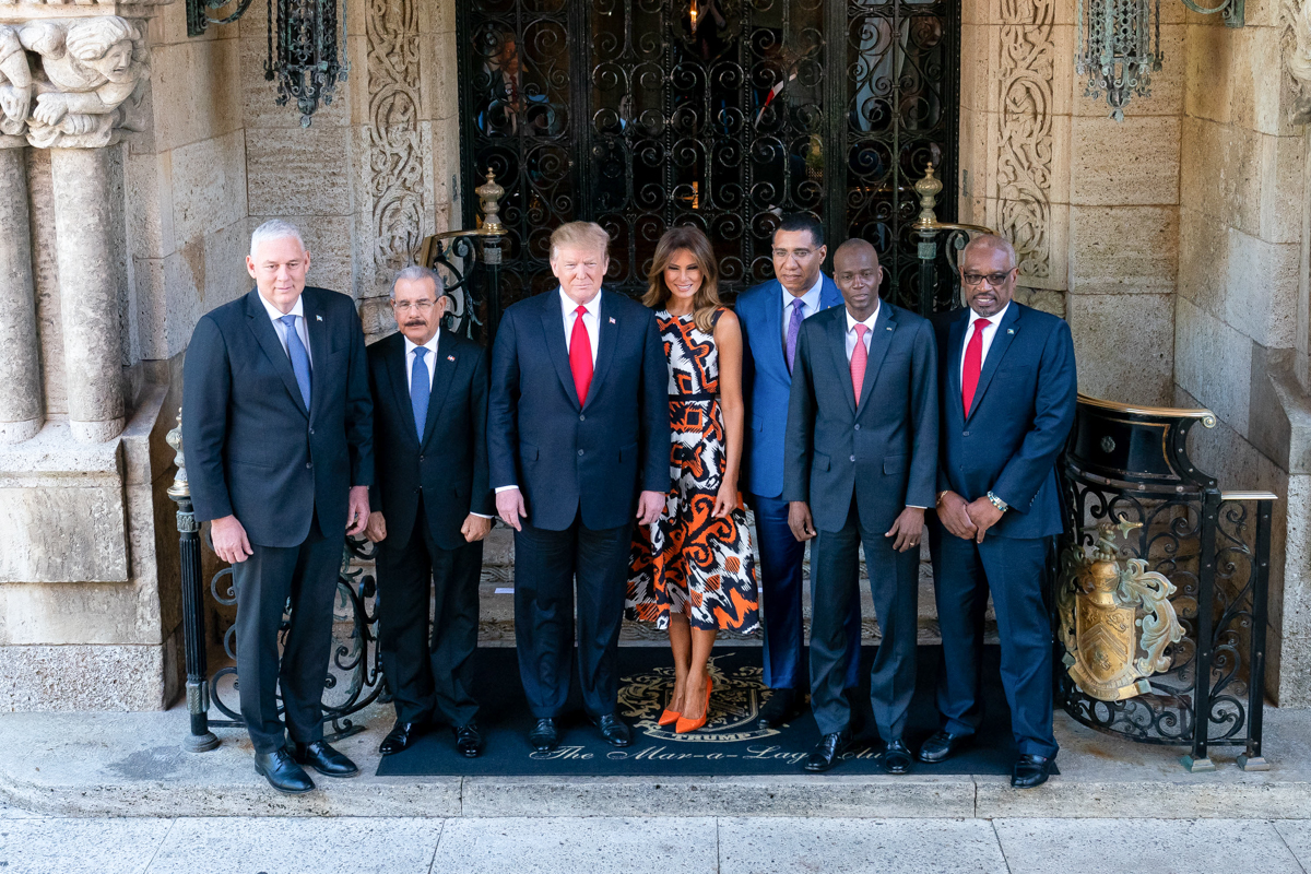 President Donald J. Trump and First Lady Melania Trump welcome Caribbean leaders Friday, March 22, 2019, to Mar-a-Lago in Palm Beach, Fla., from left, Prime Minister Allen Chastanet of Saint Lucia; President Danilo Medina Sanchez of the Dominican Republic; Prime Minister Andrew Holness of Jamaica; President Jovenel Moise of the Republic of Haiti and Prime Minister Hubert Minnis of the Commonwealth of the Bahamas. (Official White House Photo by Tia Dufour)